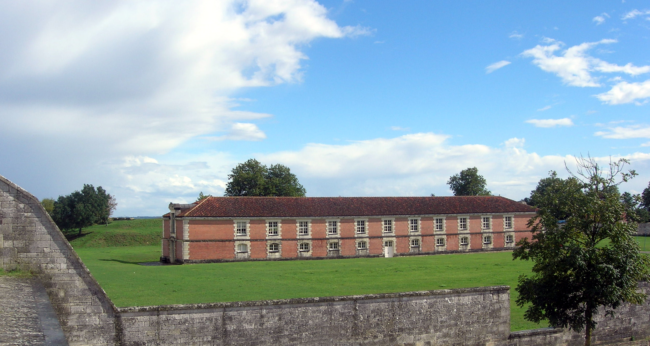 Description =Brouage, halle aux vivres. Source =Photo taken by Remi Jouan Date =Septembre 2006 Author =Remi Jouan